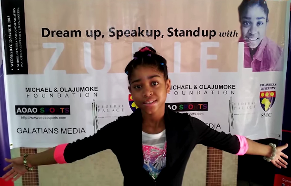 Zuriel Oduwole presenting her campaign Dream up, Speak up, Stand up